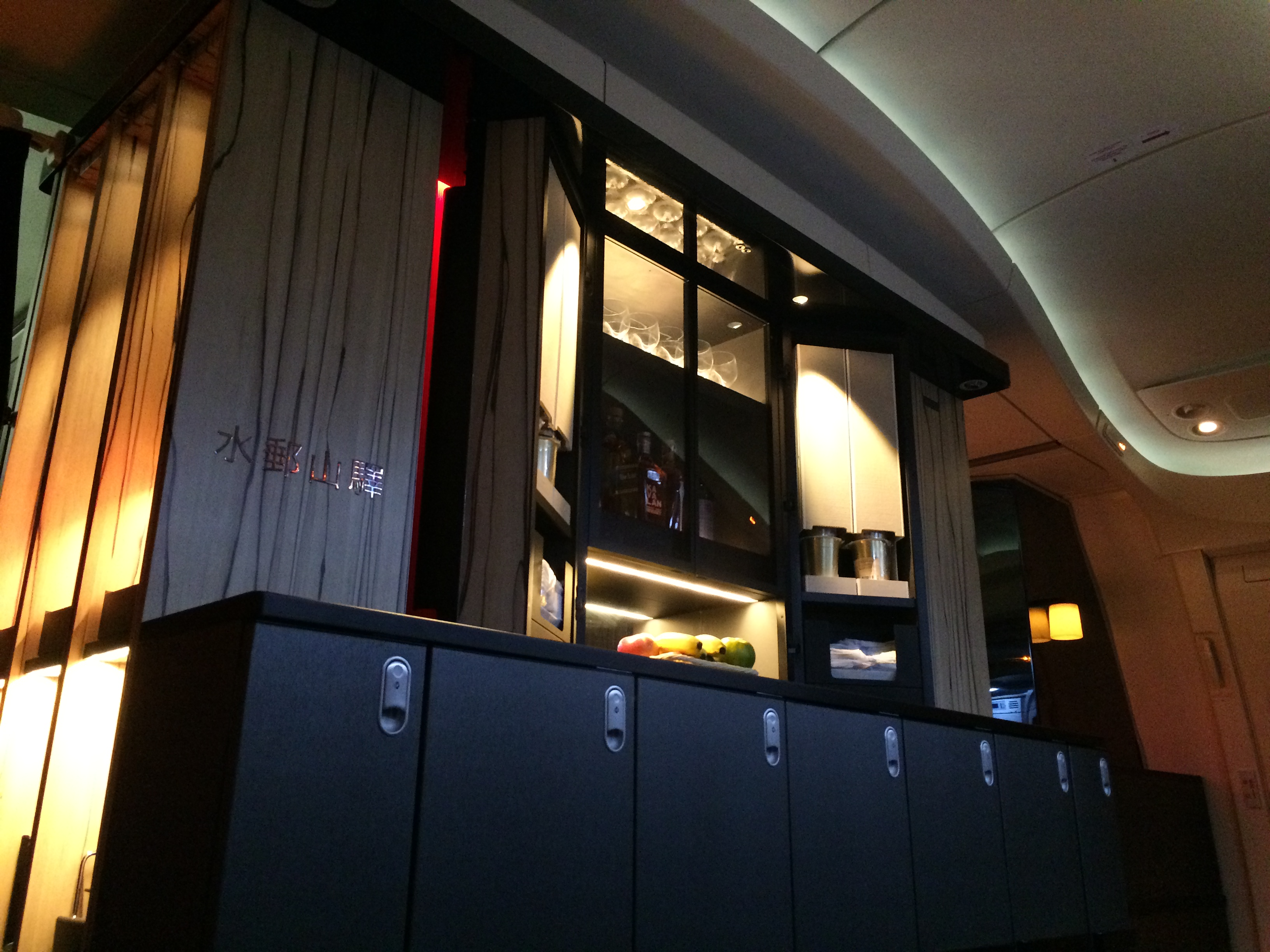 China Airlines Boeing 777-300ER Flying Oasis